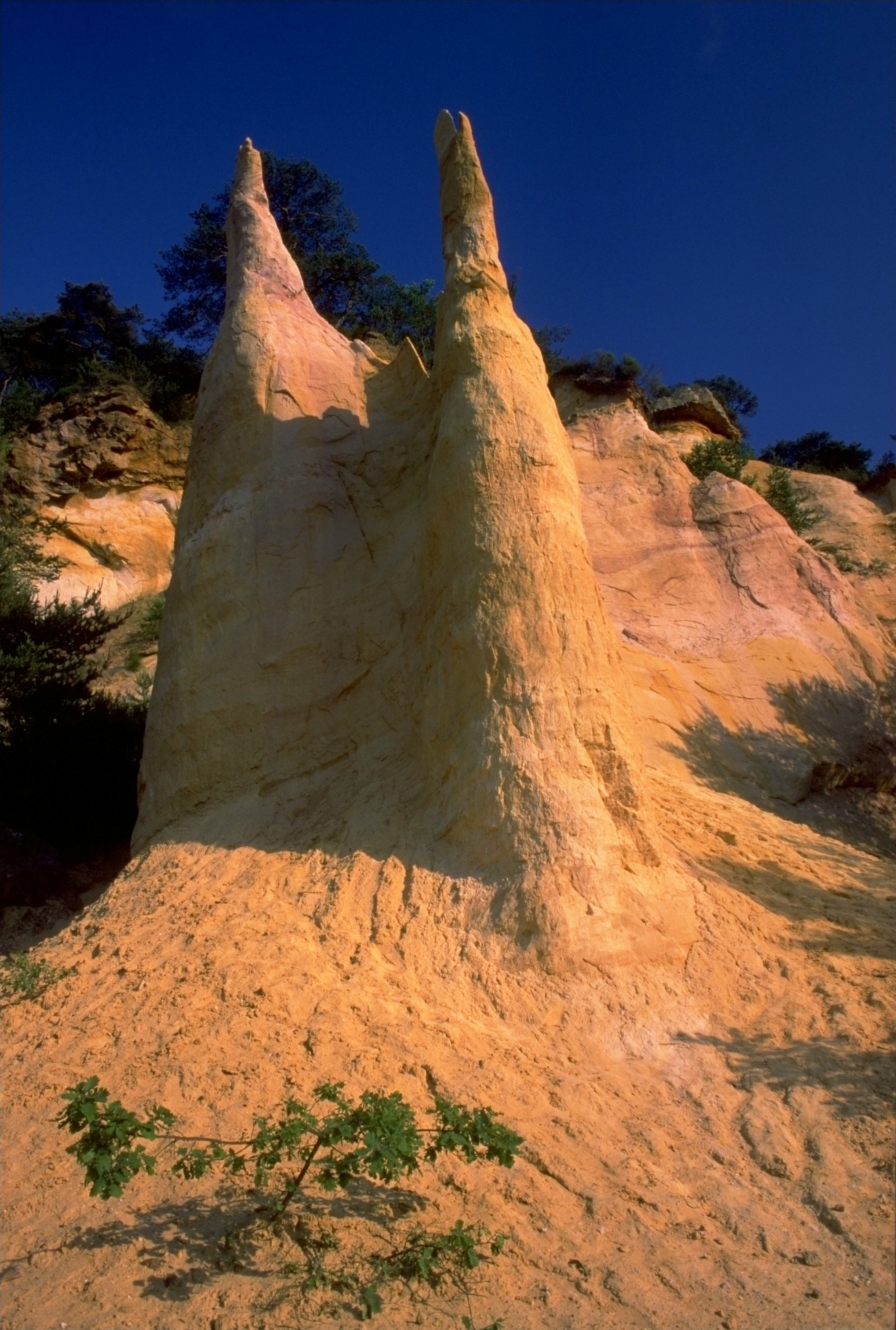 Ocher quarry of Rustrel, France Photo was taken using the following technique: Film: Fuji Velvia Lens: 2.0/20 Filter: Polarizer Body: Minolta 9000 Support: Manfrotto 190B Image with Information in English Bild mit Informationen auf Deutsch